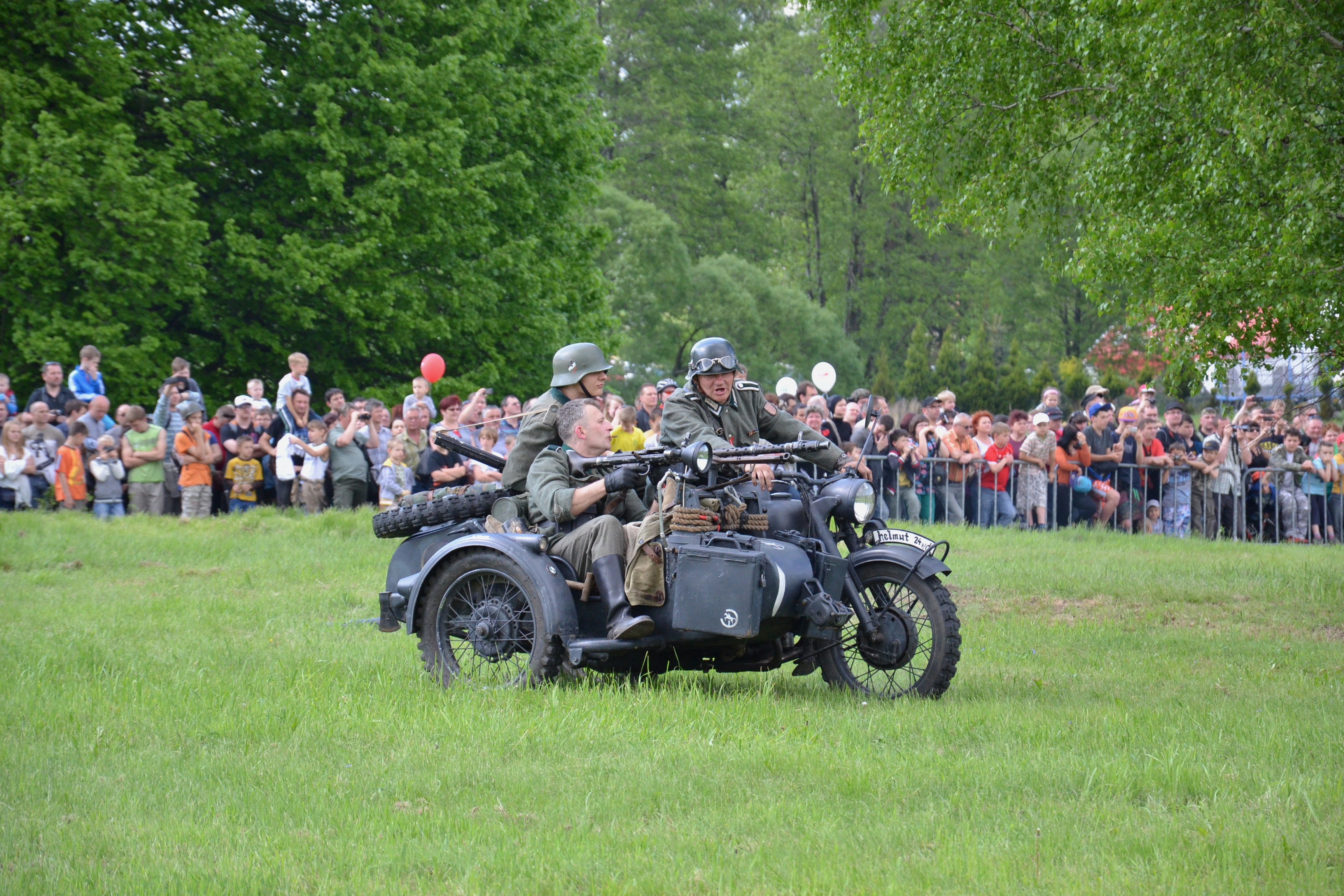 Battle of Mikołów - reenactment in 2013